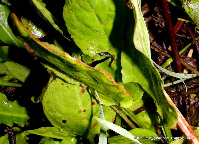 نباتات برّية سورية تؤكل